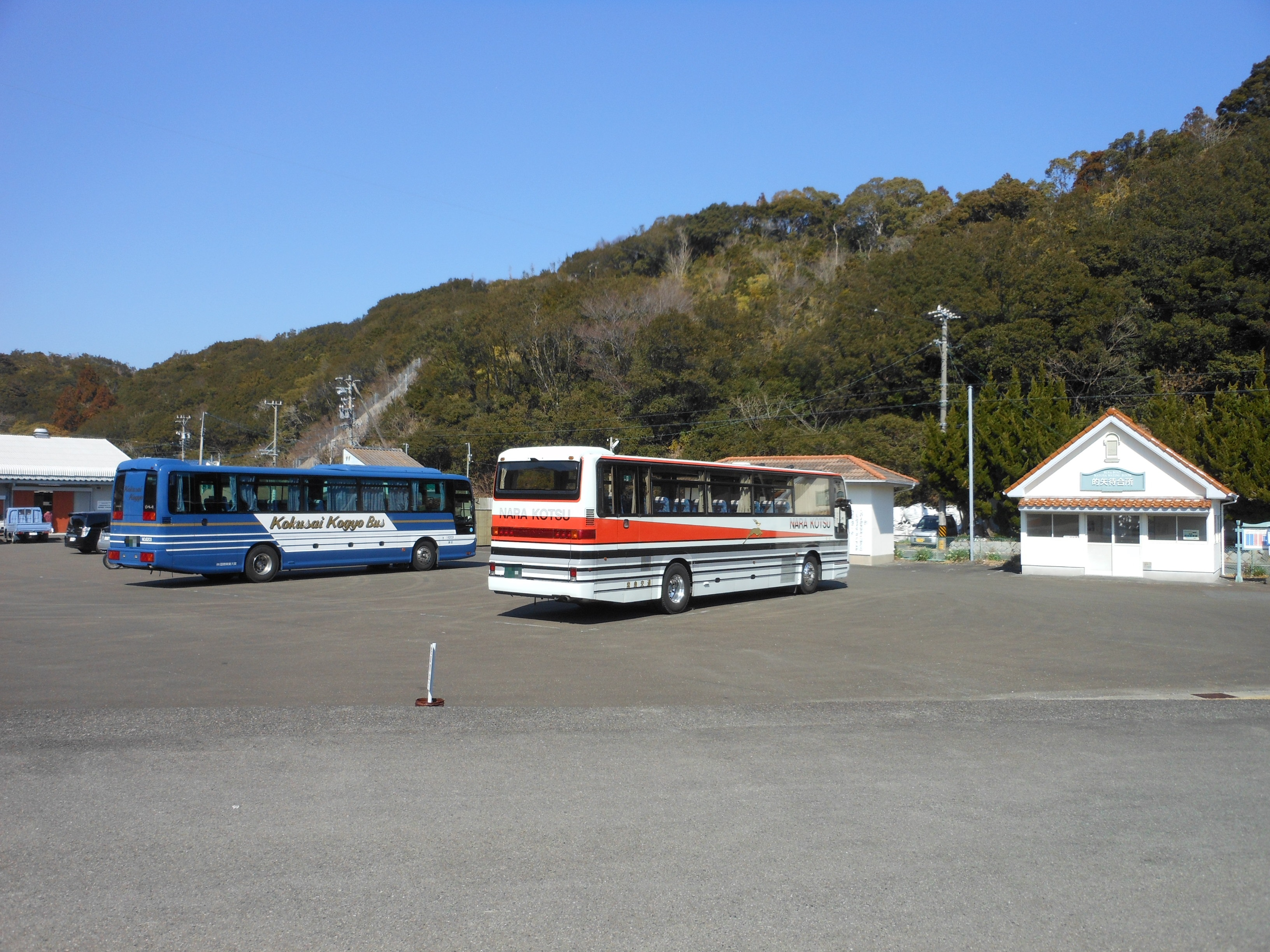 This is the Municipal Matoya Parking in Isobecho-Matoya, Shima, Mie, Japan.